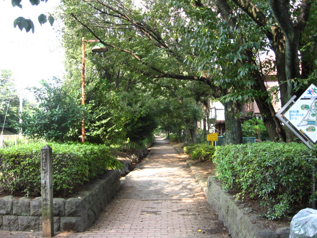 Green Park promenade at Musashino, Tokyo.